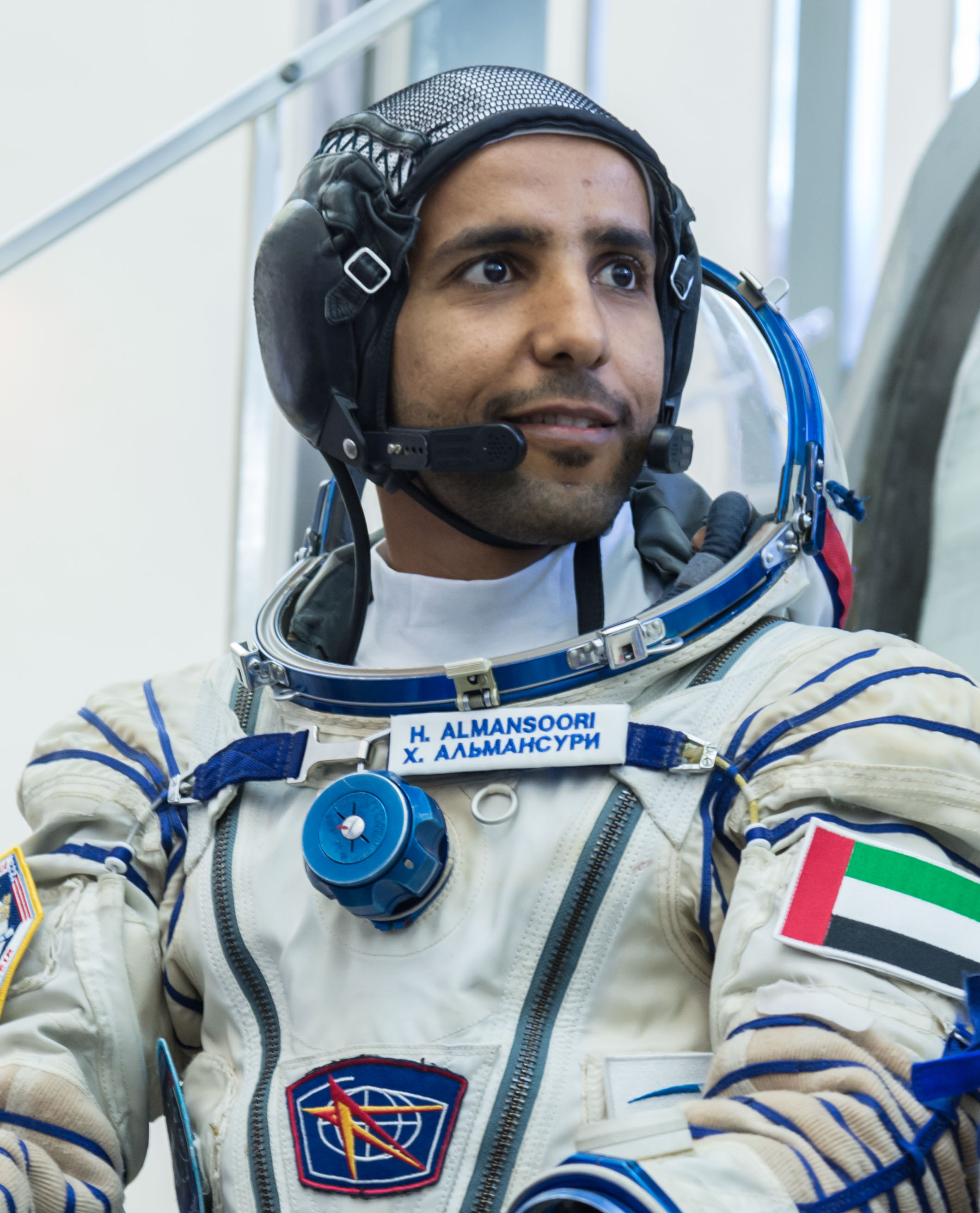 At the Gagarin Cosmonaut Training Center in Star City, Russia, spaceflight participant Hazzaa Ali Almansoori of the United Arab Emirates listens to a reporter’s question during final crew qualification exams Aug. 30. Almansoori will launch with Expedition 61 crewmembers Jessica Meir of NASA and Oleg Skripochka of Roscosmos Sept. 25 on the Soyuz MS-15 spacecraft from the Baikonur Cosmodrome in Kazakhstan for a mission on the International Space Station.